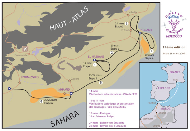 The Route of the 2009 Rallye Aicha des Gazelles du Maroc